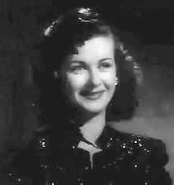 Screenshot of Joan Bennett from the trailer for the film The Woman in the Window